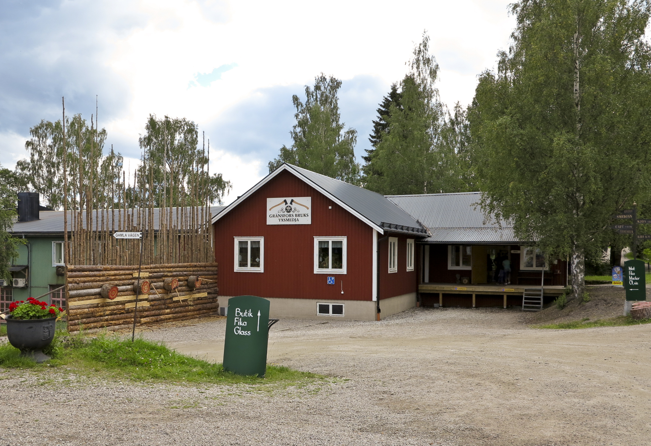 Gränsfors Bruks AB, Gränsfors, Sweden. Manufacturer of axes.